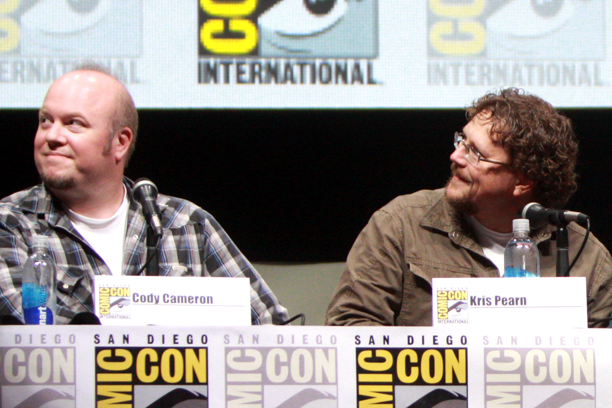 Cody Cameron and Kris Pearn speaking at the 2013 San Diego Comic Con International, for "Cloudy with a Chance of Meatballs 2", at the San Diego Convention Center in San Diego, California.